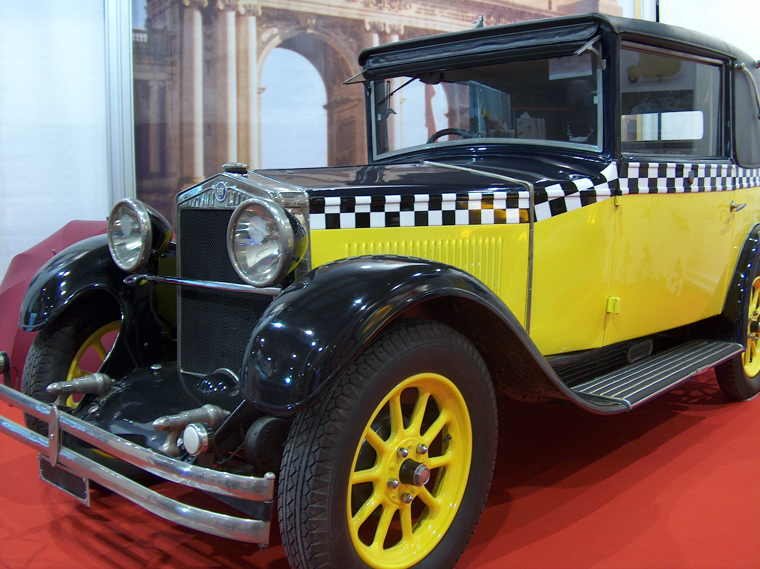 Fiat 509. Photo taken at the European Motor Show Brussels 2006, Belgium, 2006.